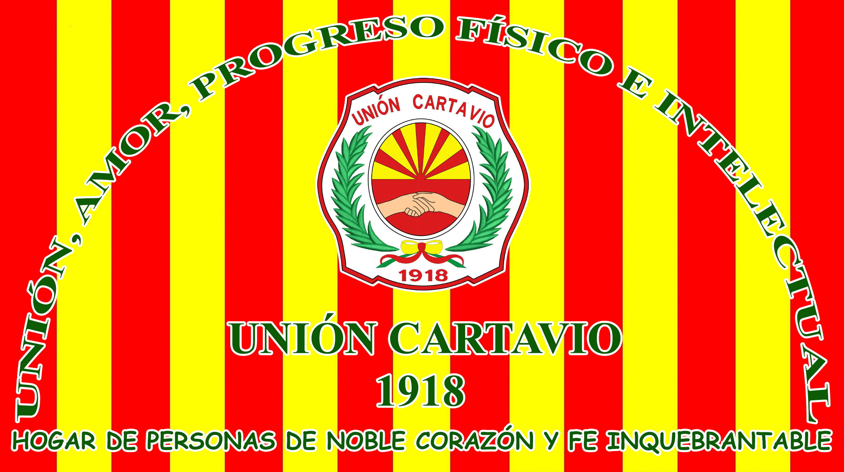 Banderola institucional Club Deportivo Social Cultural Unión Cartavio